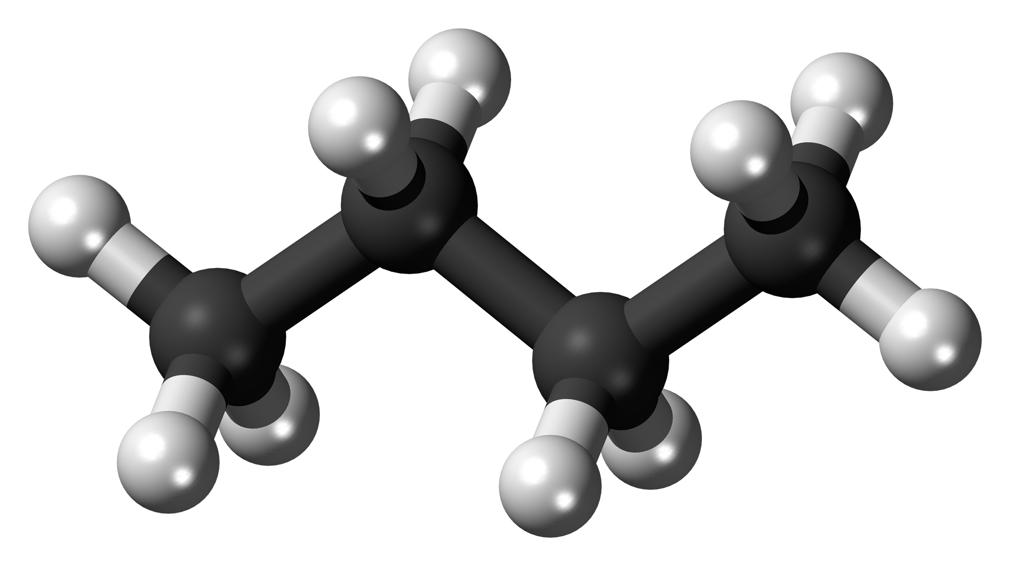 Ball-and-stick model of the butane molecule, a fuel gas commonly used in lighters and camping stoves. Colour code: Carbon, C: black Hydrogen, H: white